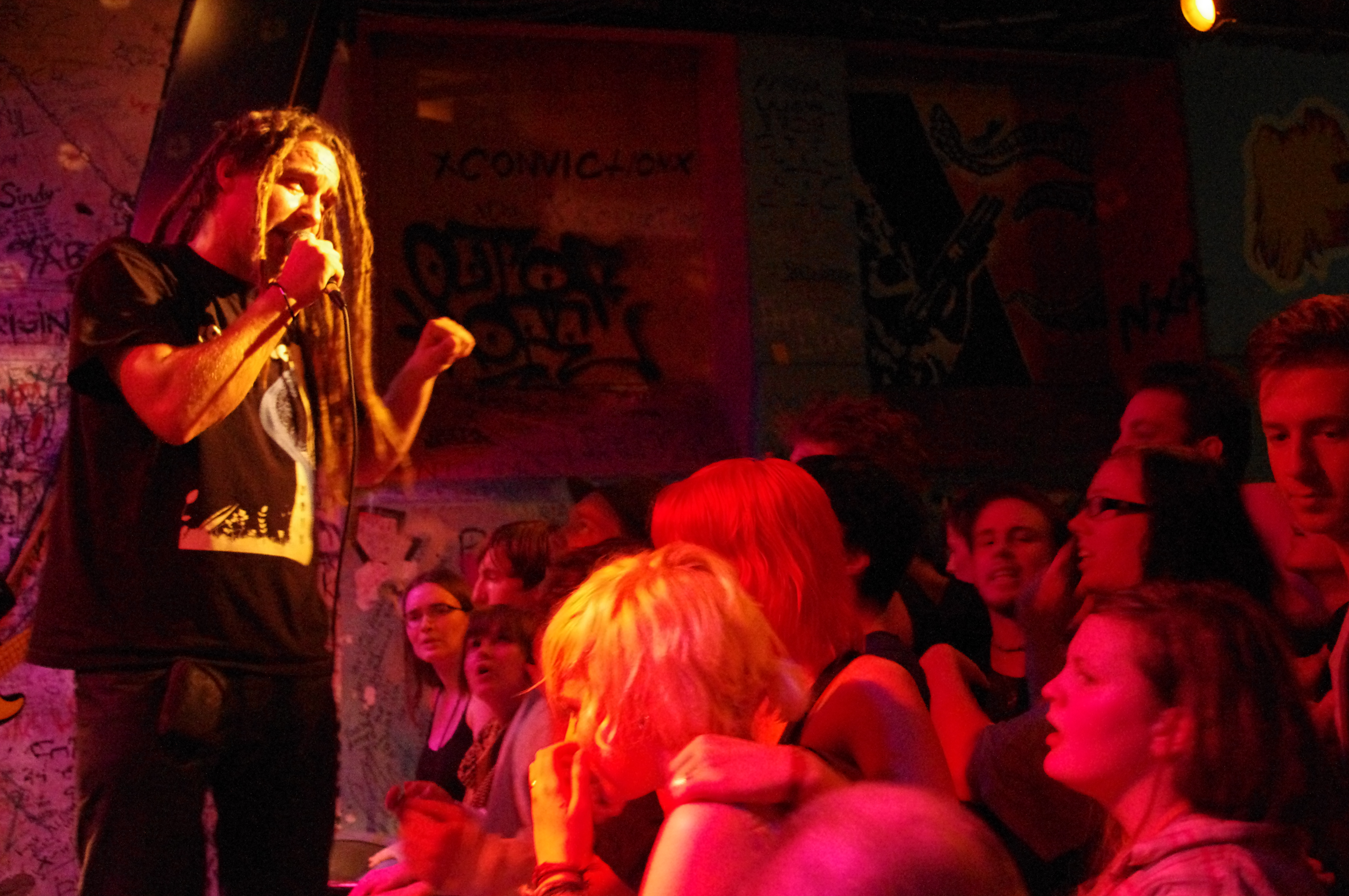 Charta 77 live at Kafé 44 2010-12-16.